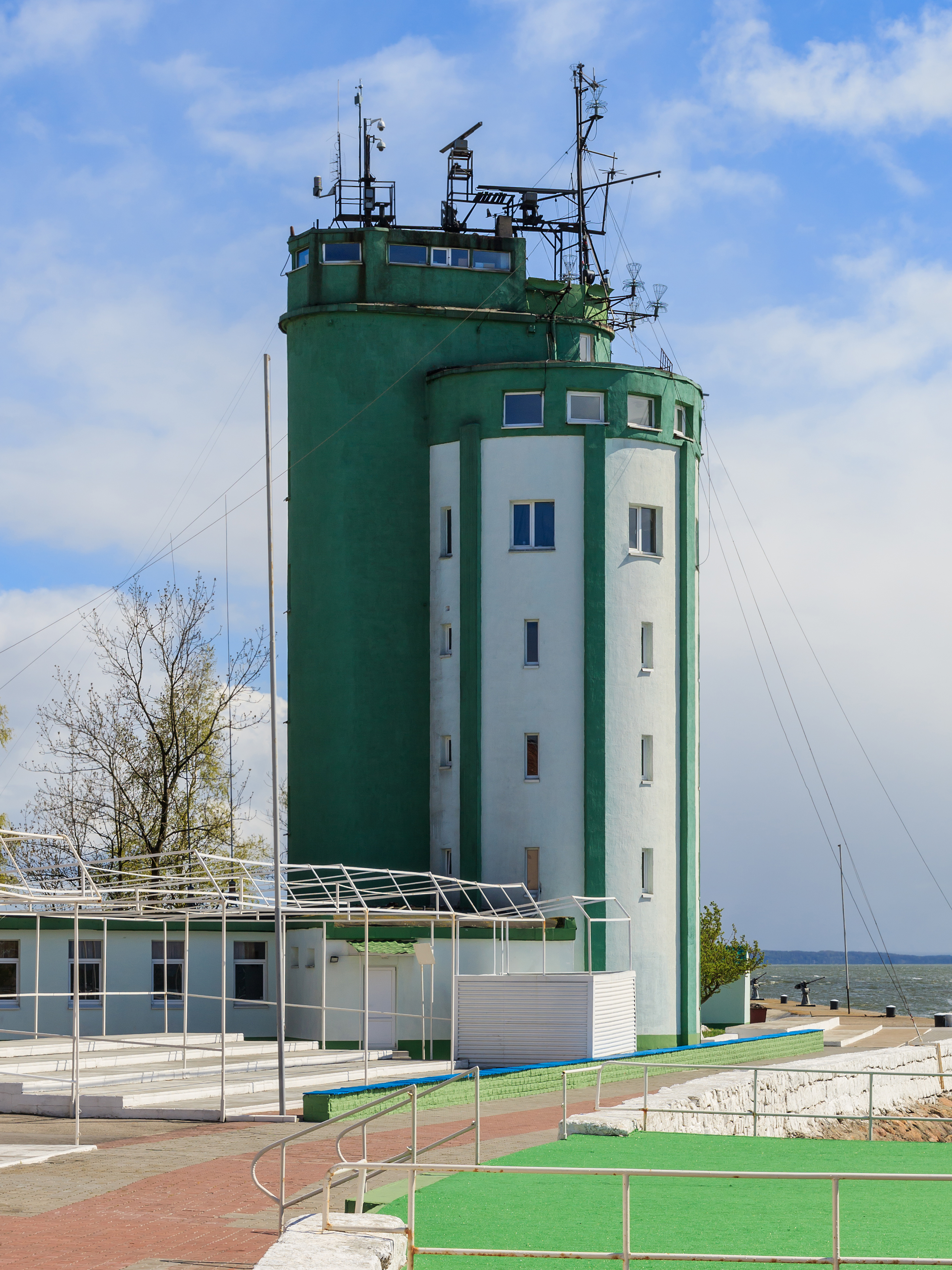 Port tower in Baltiysk formerly Pillau / Kaliningrad Oblast (Russia).